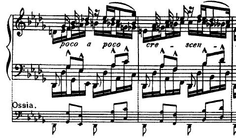 Sheet music exemple of an 'Ossia from Islamey: Oriental Fantasy by Mily Balakirev.